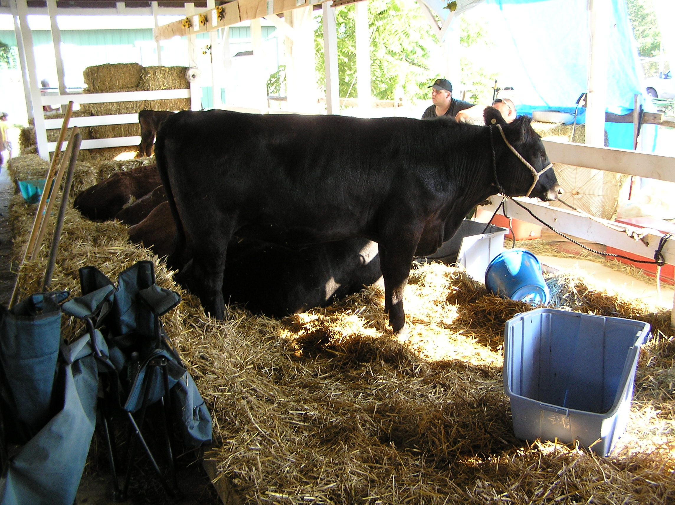 I took this photograph of a cow at the Ulster County Fair